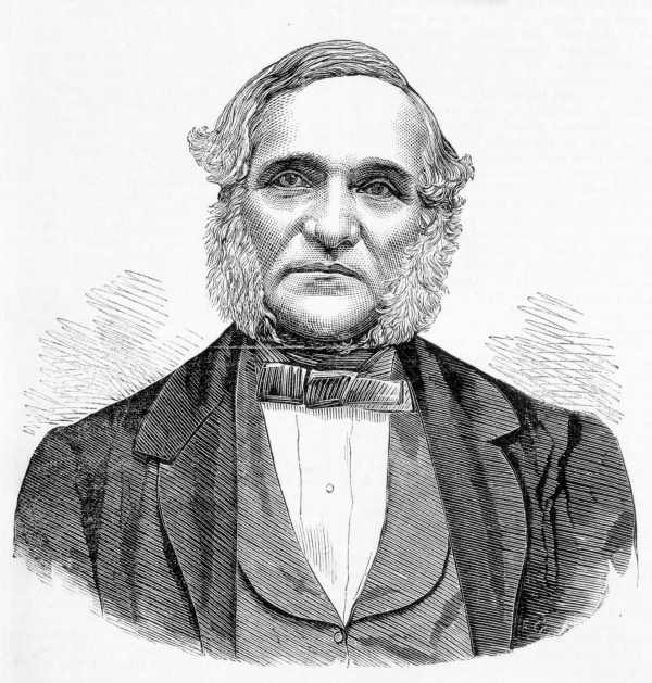 Woodblock print depicting the late Charles Ebden, produced by engraver Frederick Grosse based on a photograph by "Batchelder". First published in the Illustrated Australian News.